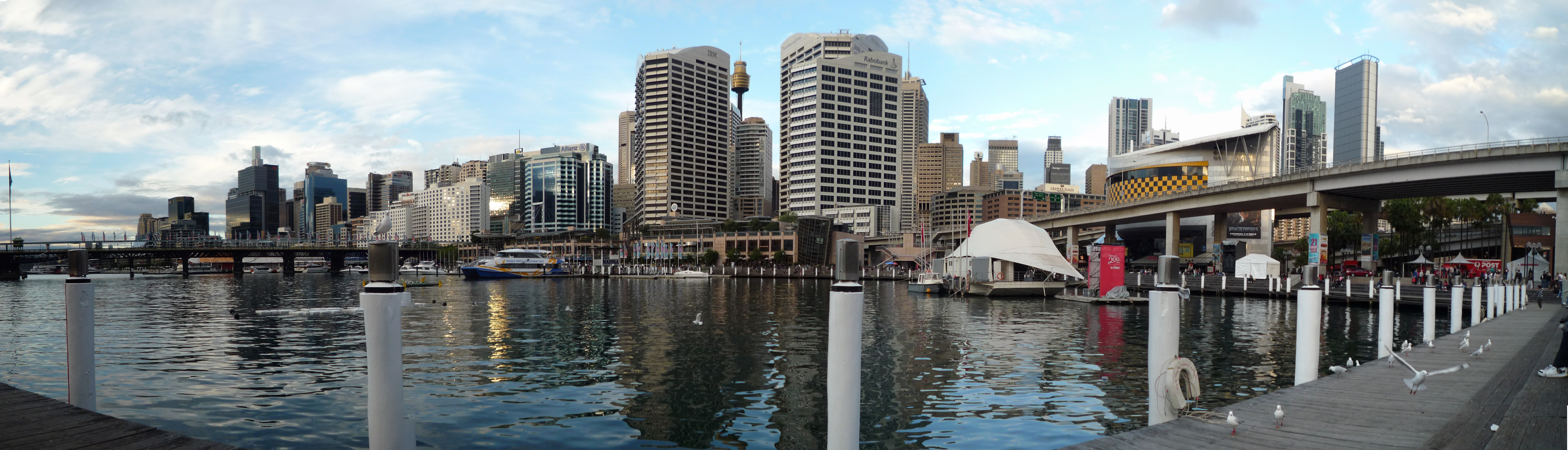 View of Cockle Bay, Darling Harbour and Sydney CBD skyline